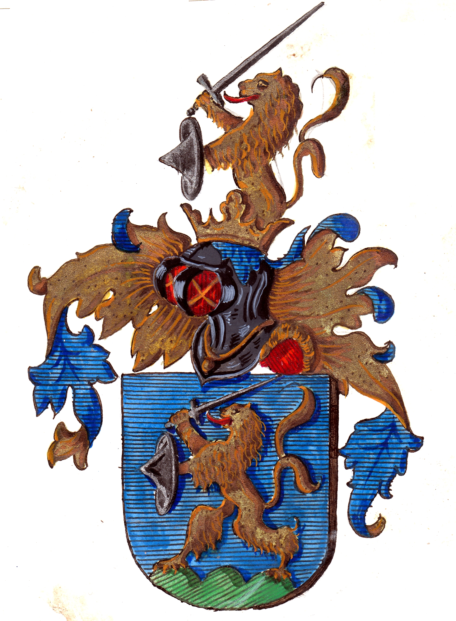 Coats of arms of Berchtold at Ungarschütz familiy - Coloured drawing ( around 1890 ) by Ernst Count Sprinzenstein ( Family archives Sprinzenstein )